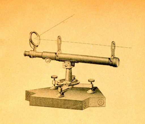 A heliotrope.